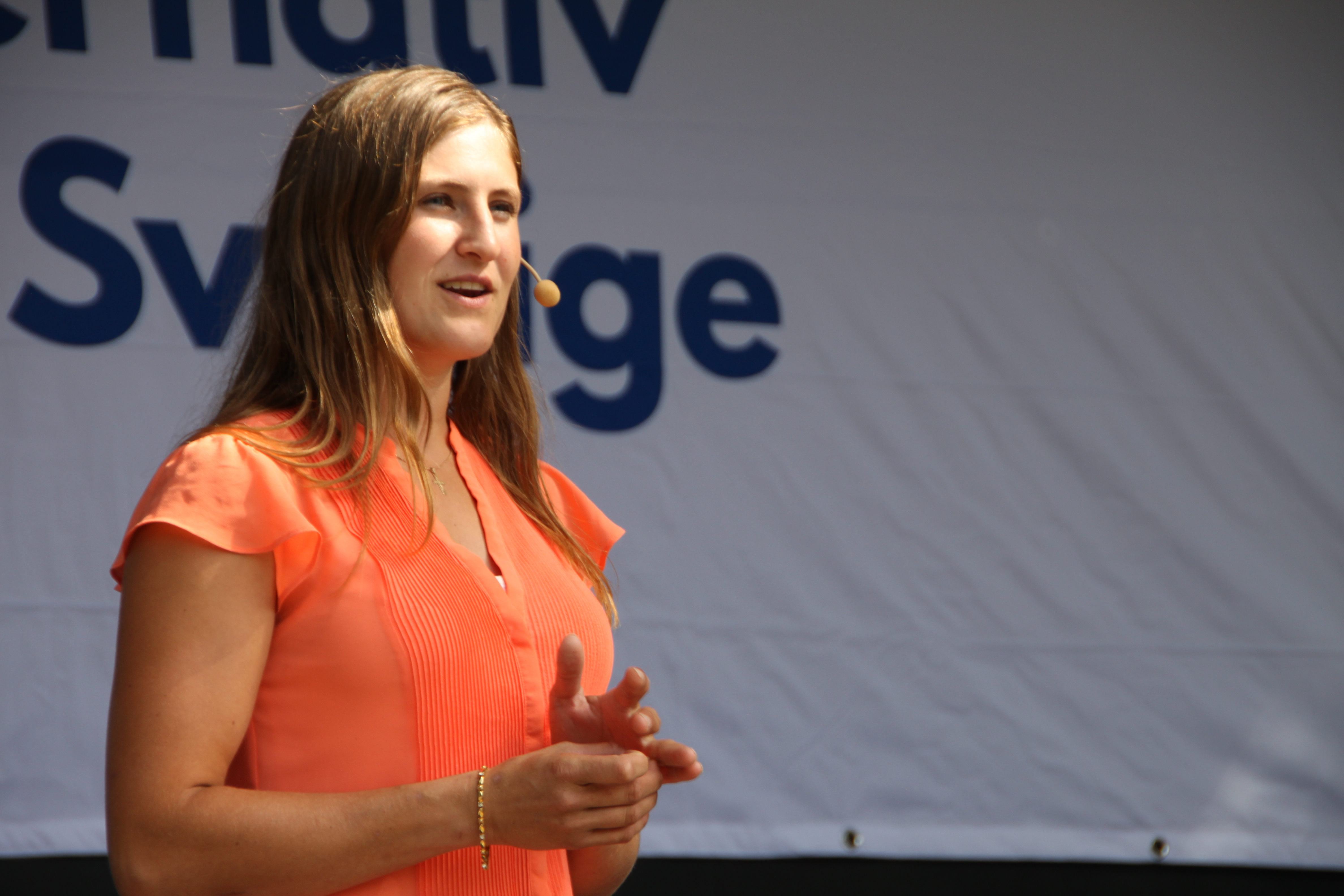 Jessica Ohlson speaks at Alternative for Sweden's meeting on Långholmen in Stockholm on 11 August 2018.